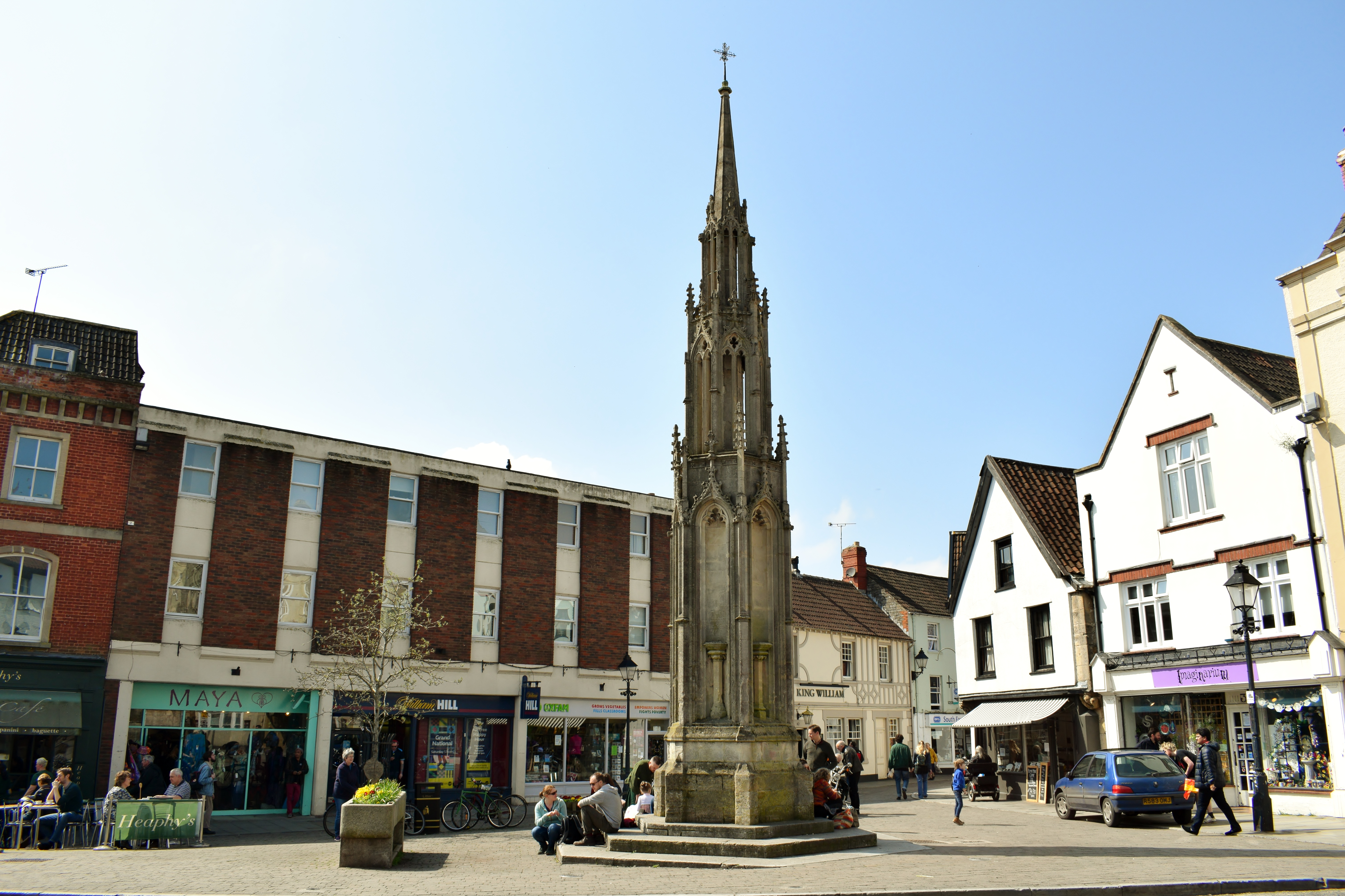 Glastonbury.